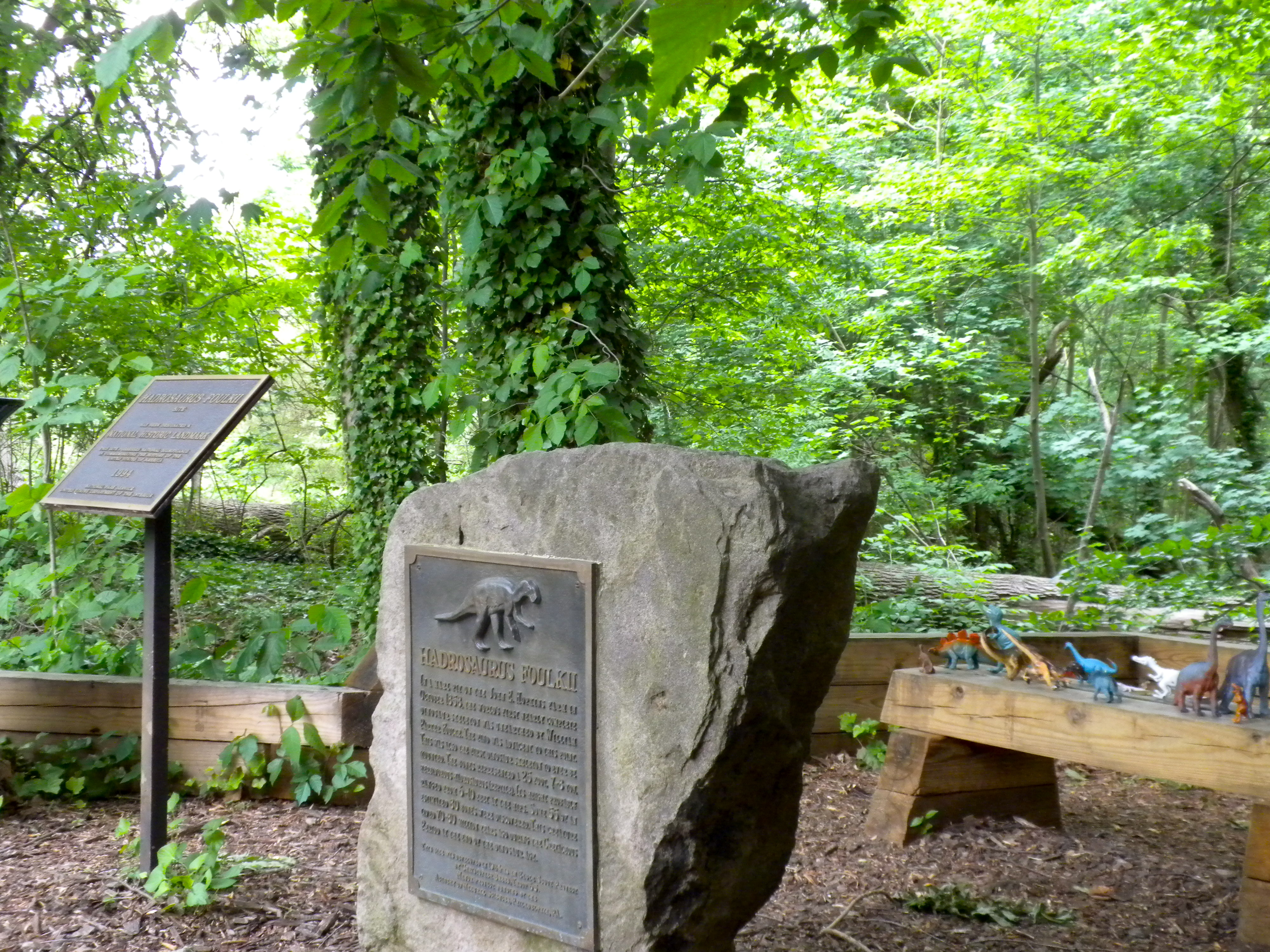 Hadrosaurus Foulkii Leidy Site a National Historic Landmark since October 12, 1994. At the east end of Maple Ave., near Cooper River, in Haddonfield, New Jersey. Near this site (about 20 yards?). The first fairly complete dinosaur skeleton was discovered in 1858. It was also the first mounted dinosaur skeleton. From left: NHL plaque, Plaque from Philadelphia Academy of Sciences (?), toy dinosaurs, apparently left by visitors to the site (certainly not by me), or perhaps by neighborhood kids.